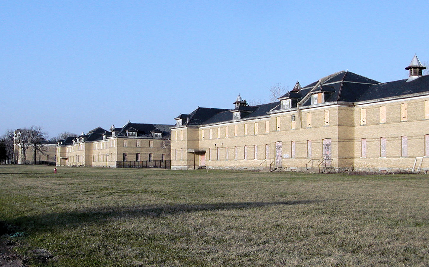 Boarded up buildings at Fort Snelling